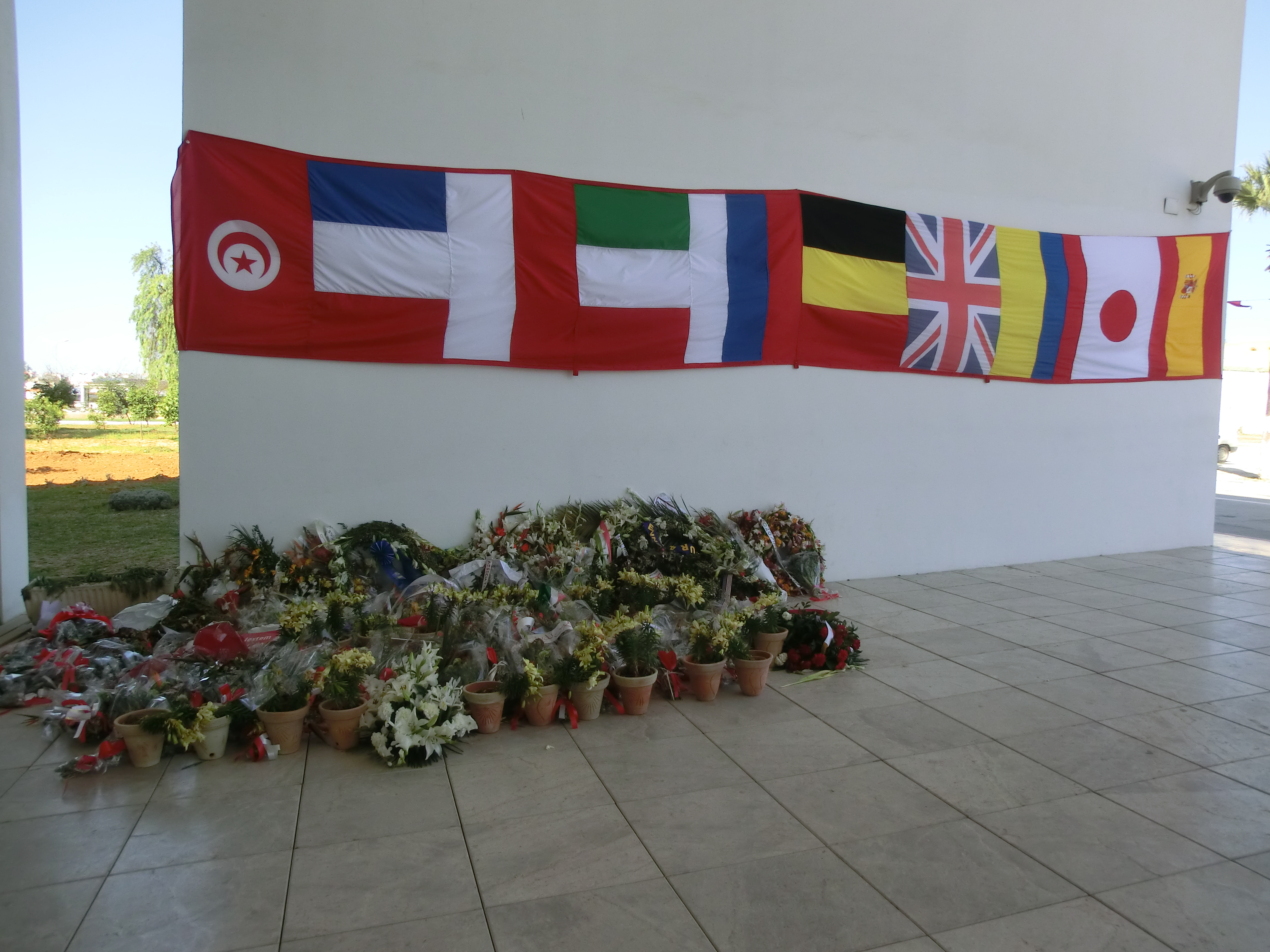 Memorial for the victims of the terrorist attack at Bardo Museum, Tunis, April 2015